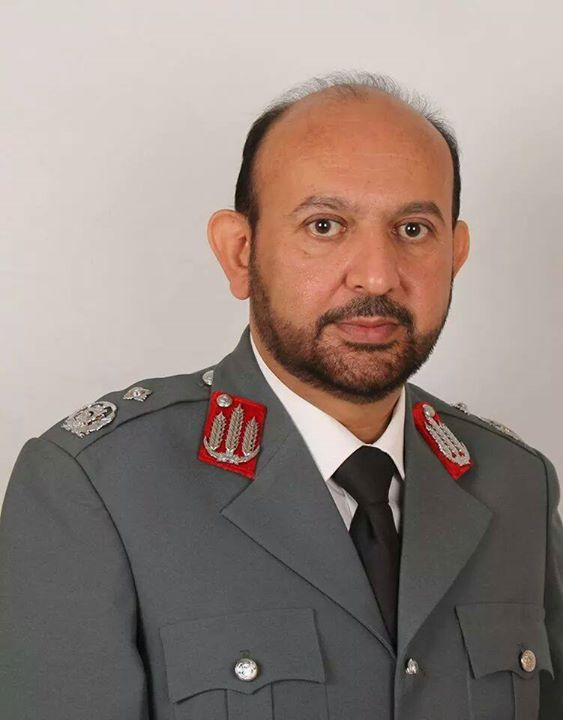 Photo of General Gharzai Khwakhuzhi